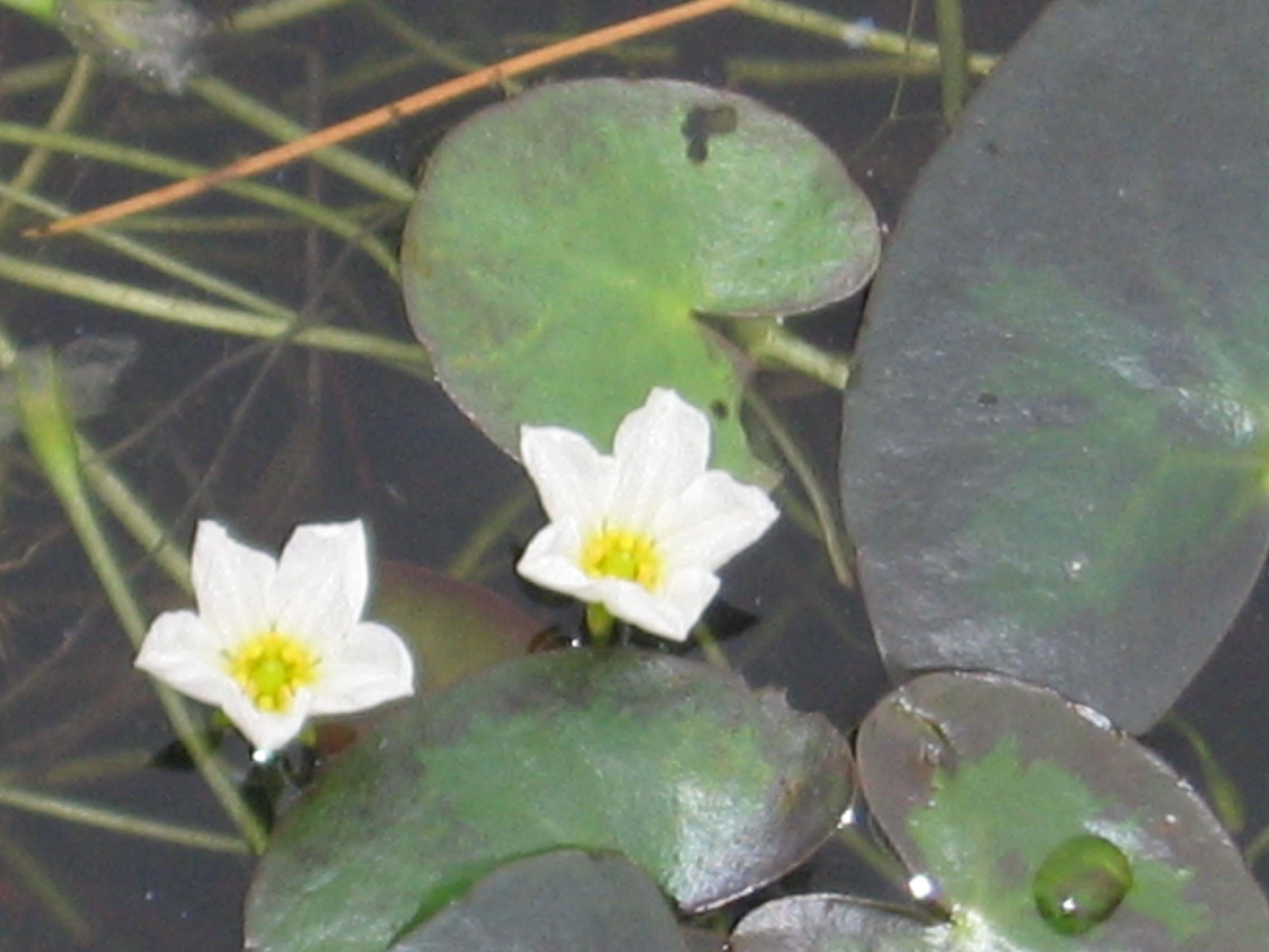 Nymphoides cordata, close-up of blossom.